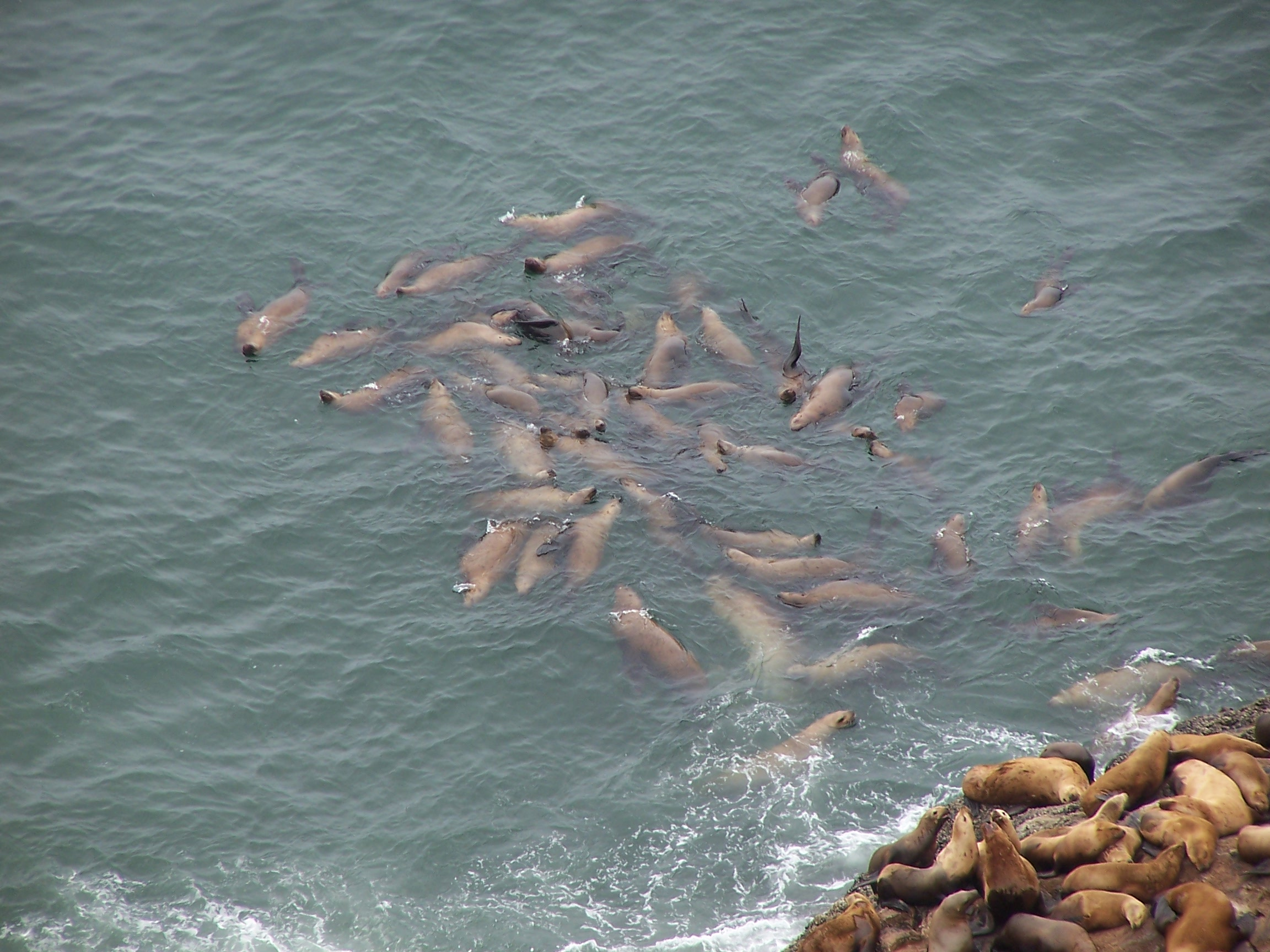 A pod of Sea Lions in the water off the lookout.